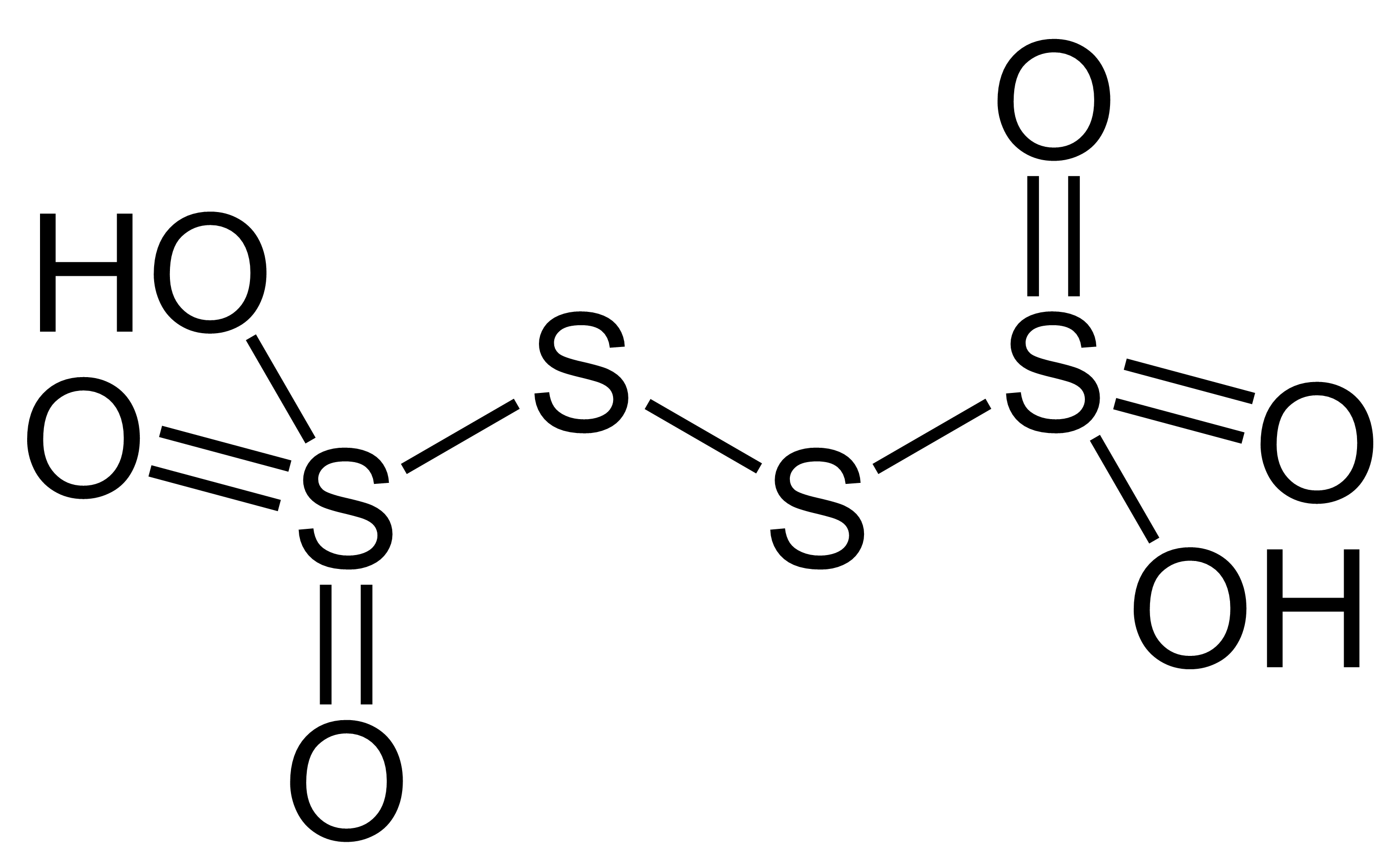 Tetrathionic acid